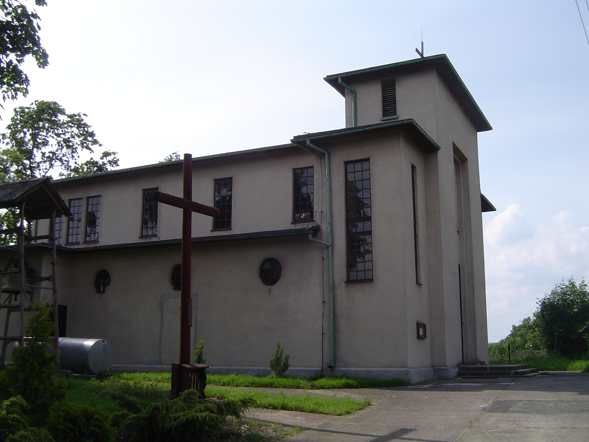 St. Joseph church in Turznice, Poland